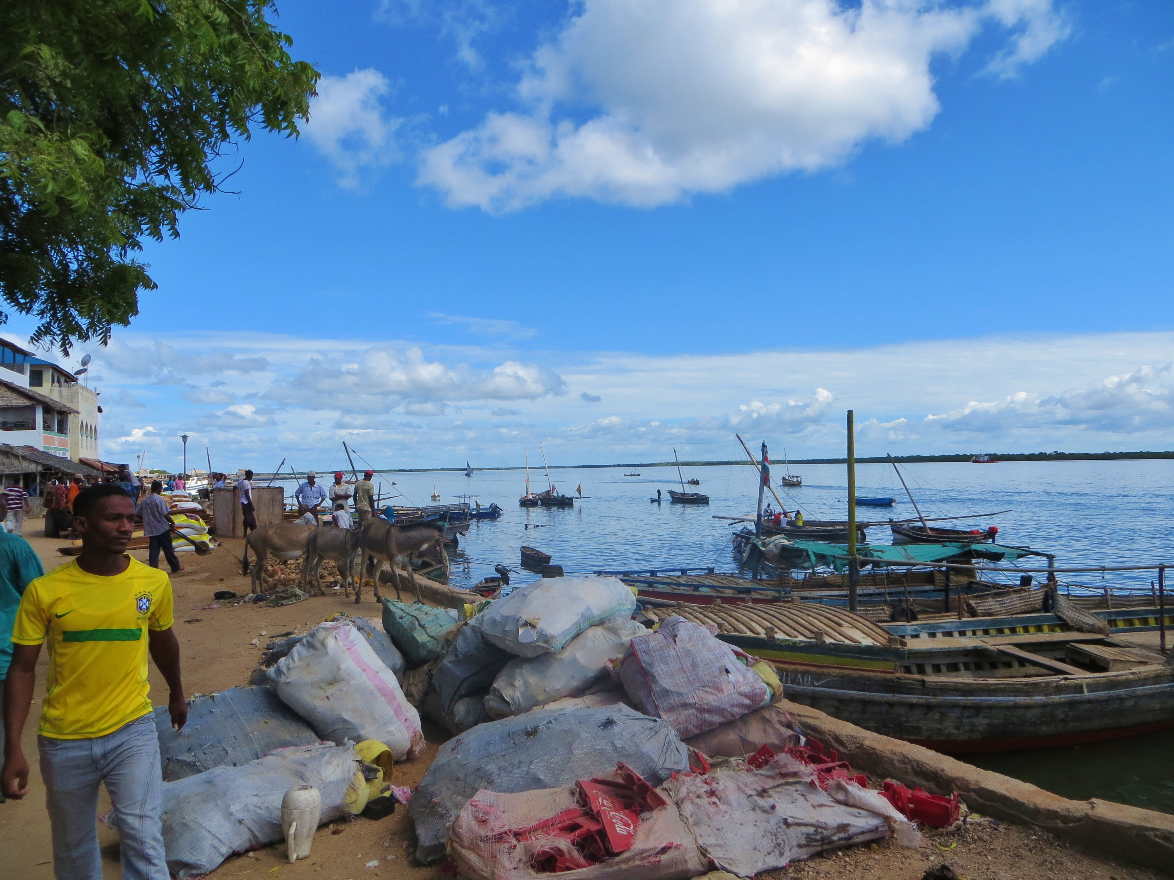 Lamu island seashore (Kenya).